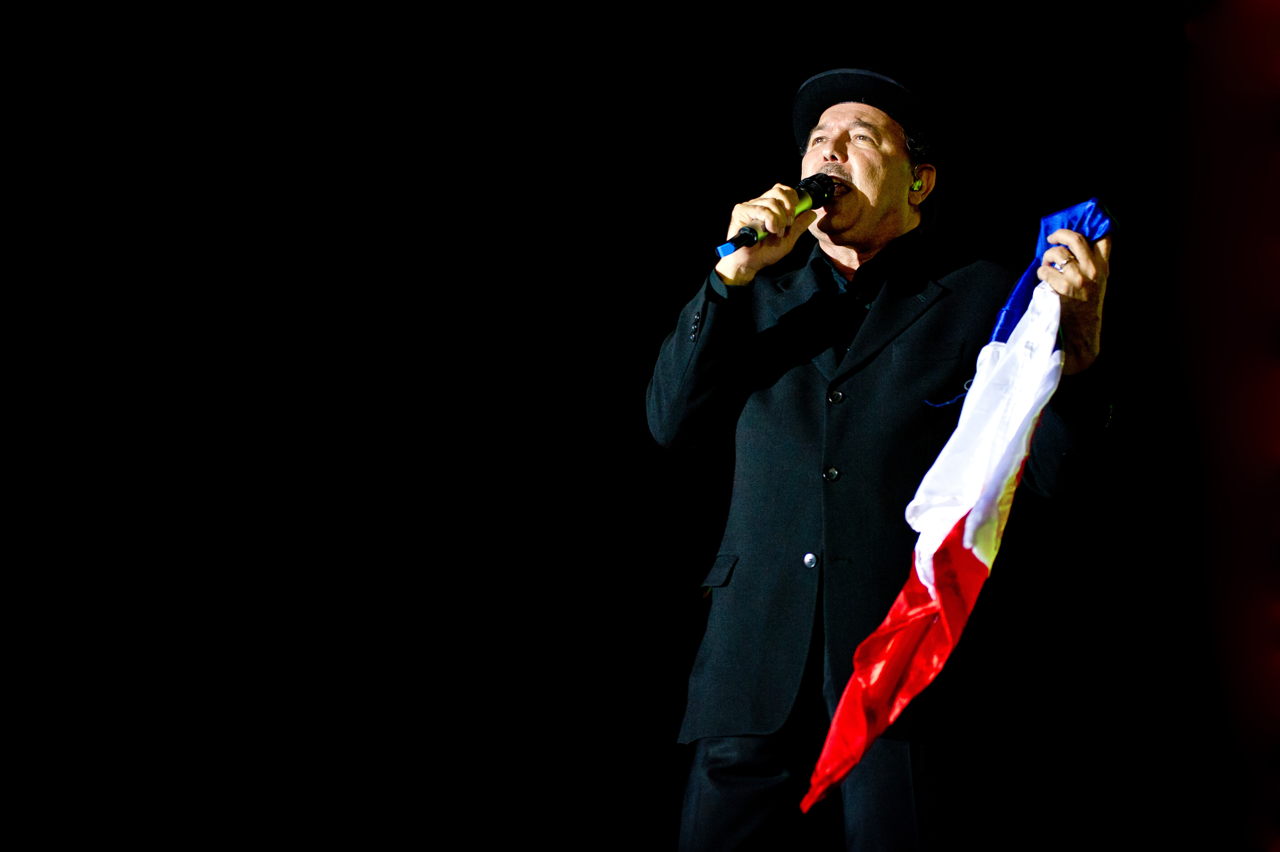 Festival Internacional de la Salsa Boca del Rio, Ver. 2012 Abarrotado 145 mil personas Eduardo Pavon | Fotografia Profesional contacto